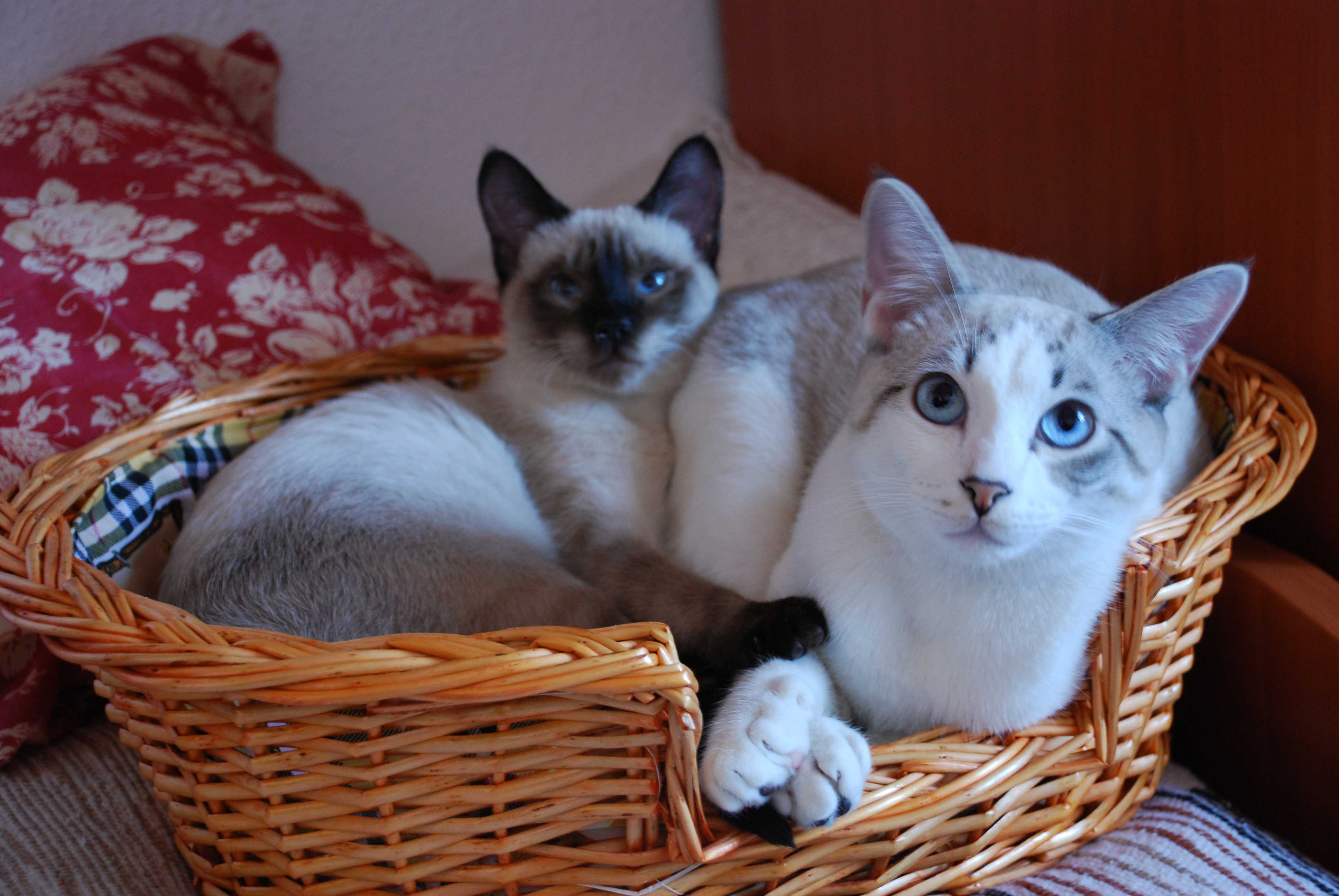 Two cats